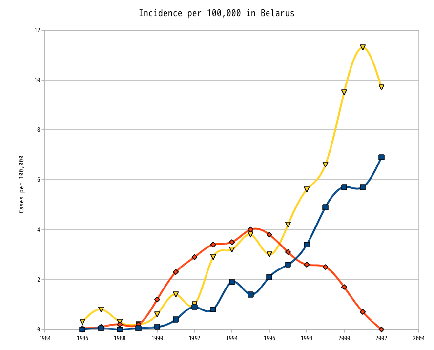 Thyroid cancer Incidence in children and adolescents from Belarus after the Chernobyl accident. Yellow: Adults (19–34), blue: Adolescents (15–18), red: Children (0–14)